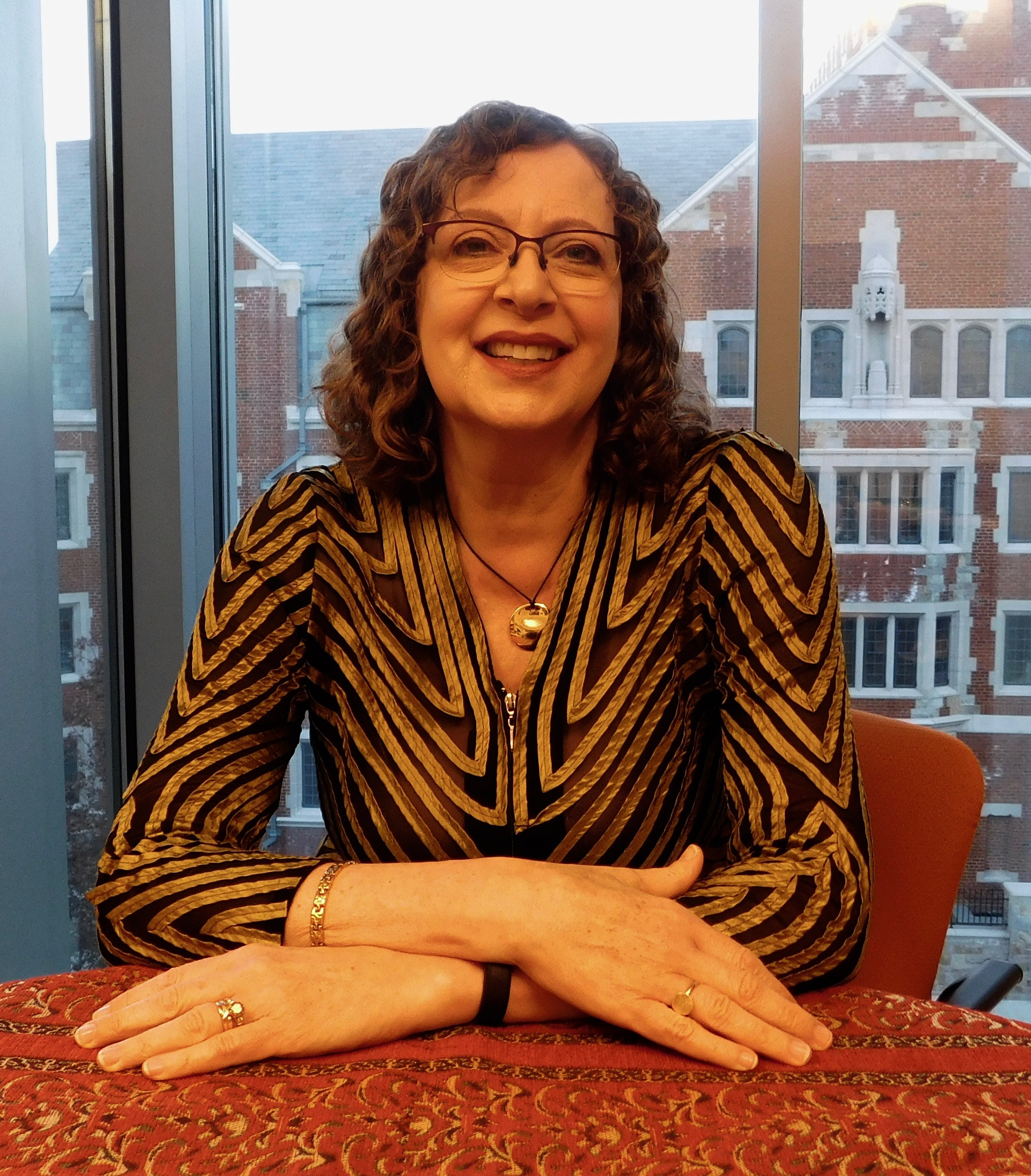 Photo shared by professor Marcia Inhorn to be used on her wikipeadia page